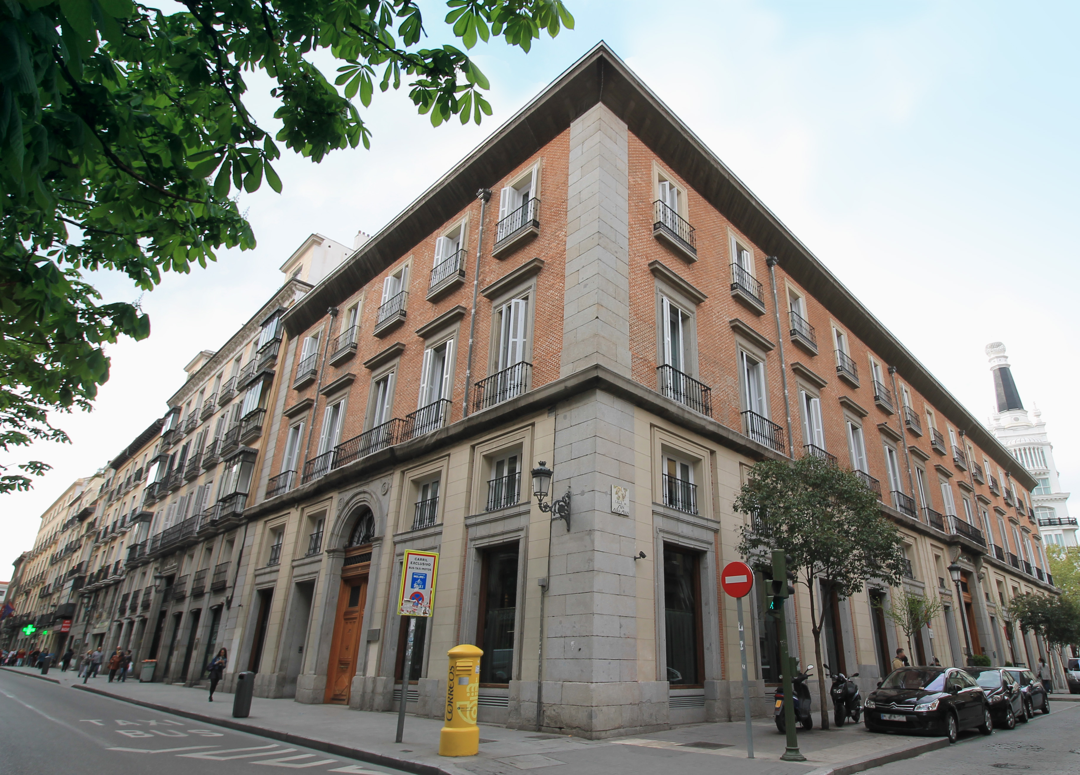 View of the former Mansion of the Count of Tepa (a hotel since 2004) in Madrid (Spain) from the south angle.